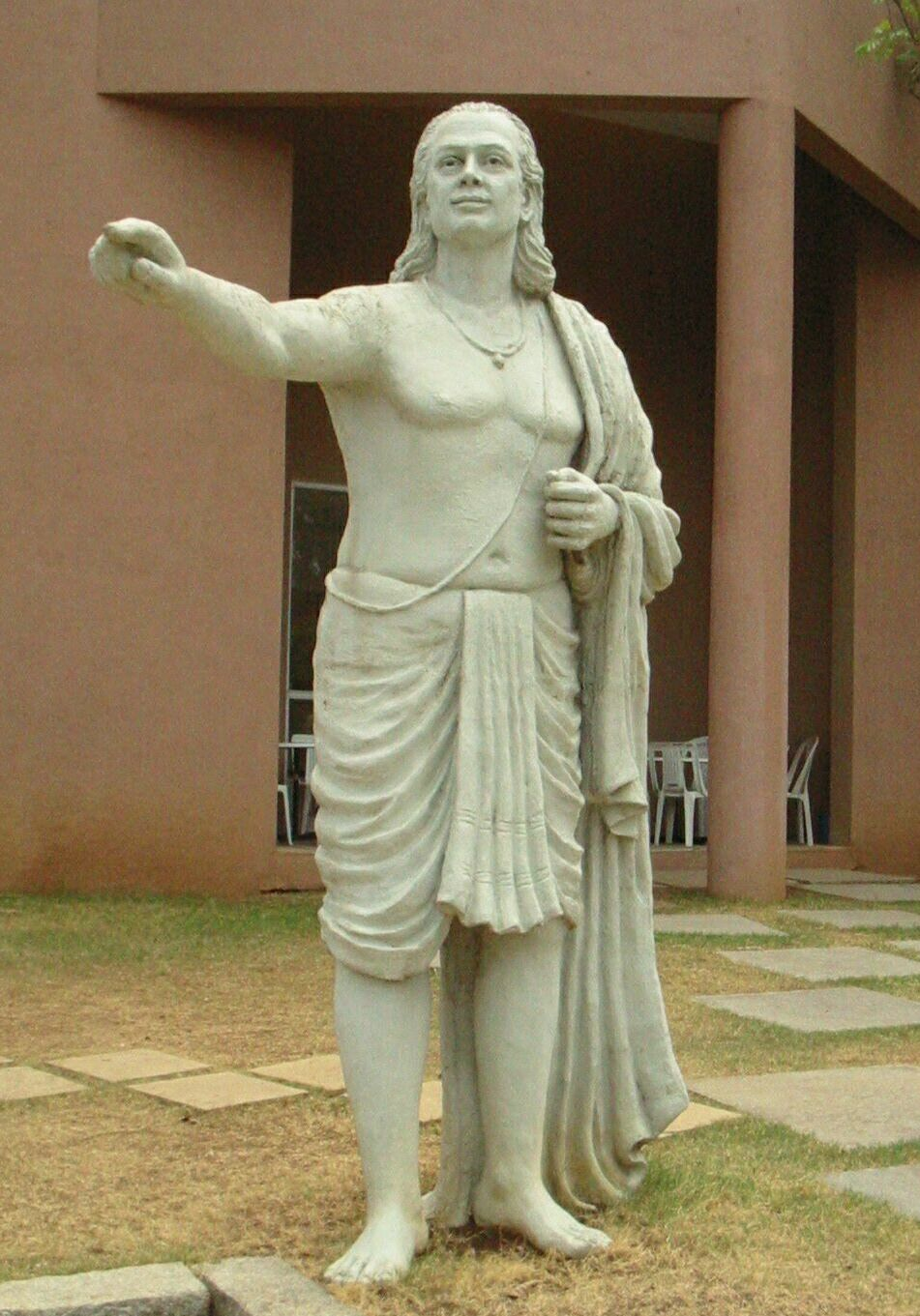 Aryabhata, mathematician and astronomer in Ancient India.